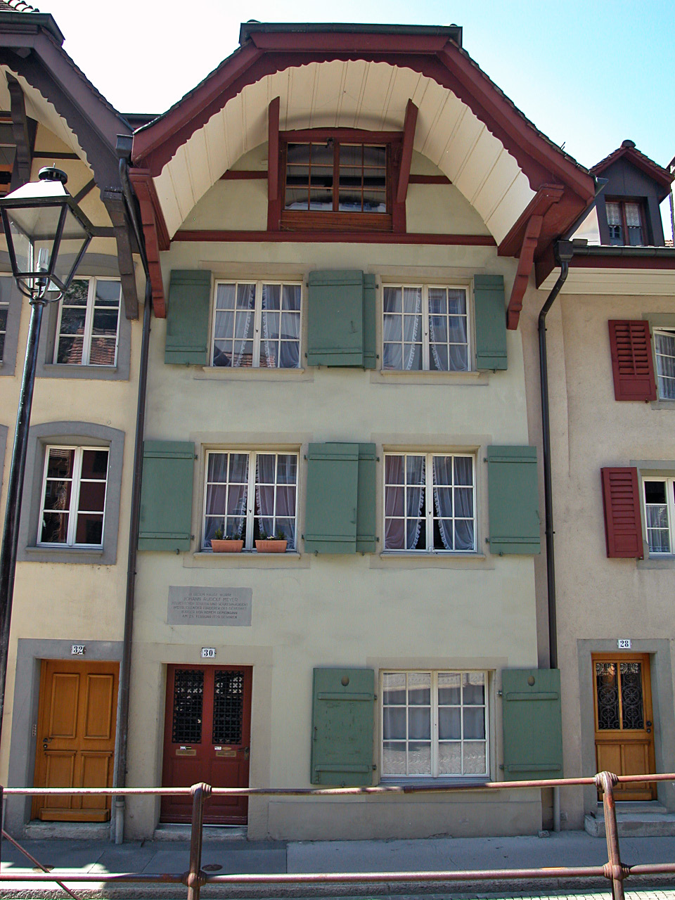 Johann Rudolf Meyer (1739–1813) was allegedly born in this house in Aarau, Switzerland.